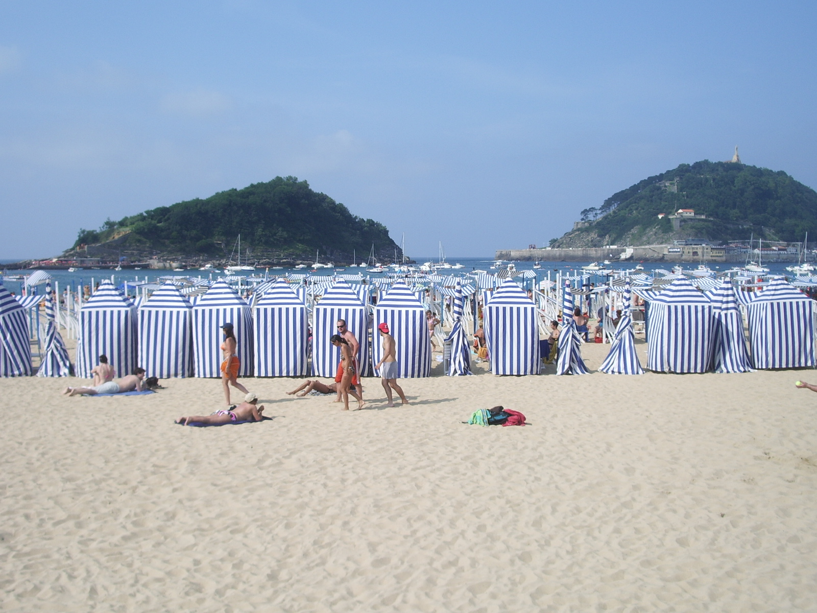 Ondarreta beach (San Sebastian)